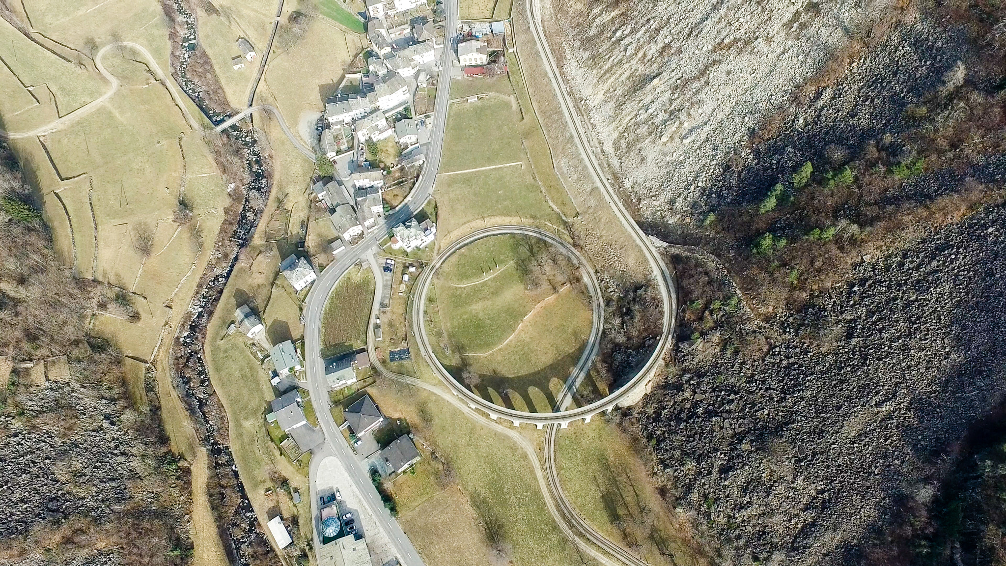 500px provided description: Brusio Viaduct [#aerial ,#swiss ,#dji ,#inspire1]